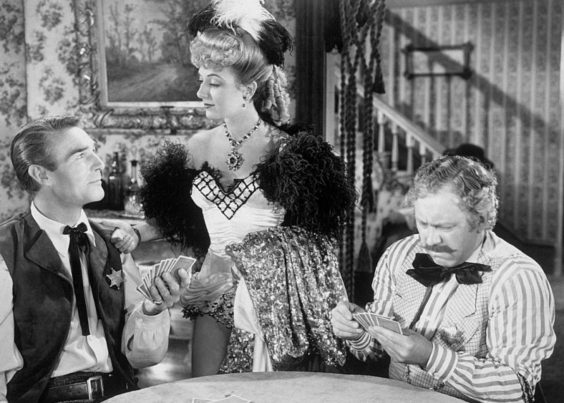 L. to R. : Randolph Scott, Ann Dvorak & Edgar Buchanan in Abilene Town - cropped screenshot